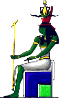 The egyptian god Geb